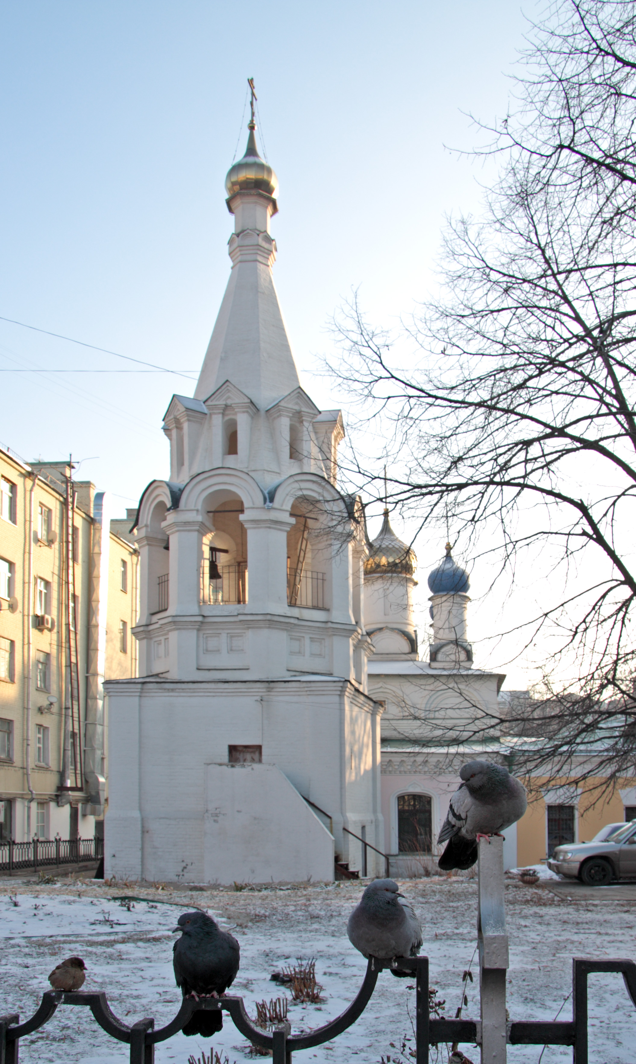 Fedor Studit church in Moscow, Russia